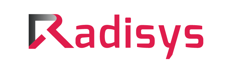 Radisys logo